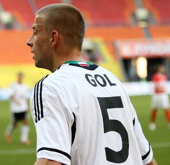 Association football player Janusz Gol from Poland during UEFA Europa League qualification match between Legia Warszawa and Spartak Moscow at Luzhniki Stadium.